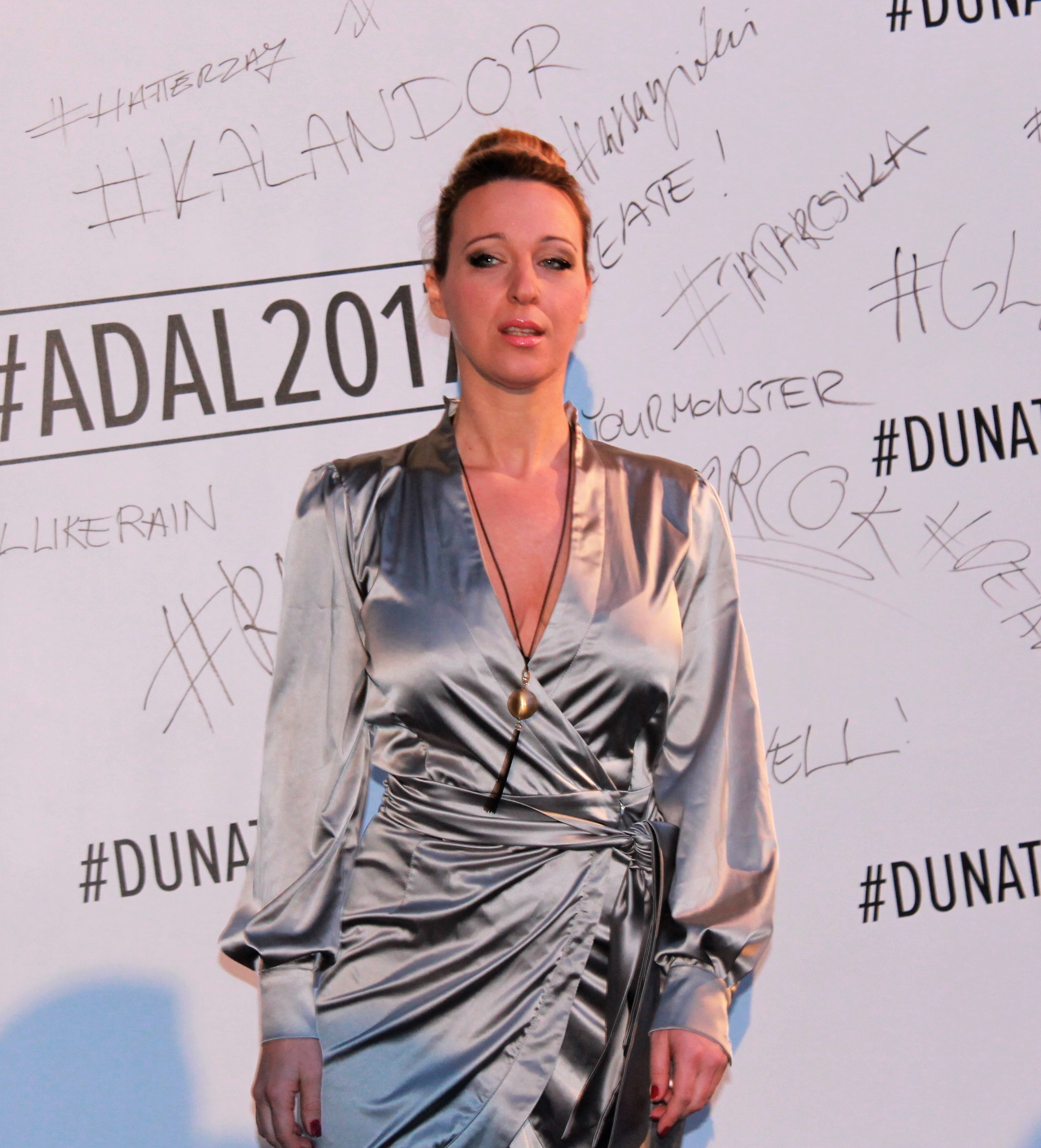 A Dal 2017 participant: Kata Csondor